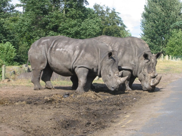 White Rhinoceroses at West Midland Safari Park.